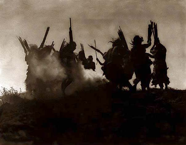 The photograph illustrates Several Kwakiutl people dancing in a circle around a smoking fire, in an effort to cause a sky creature, which they believe swallowed the moon, to sneeze thereby disgorging it.